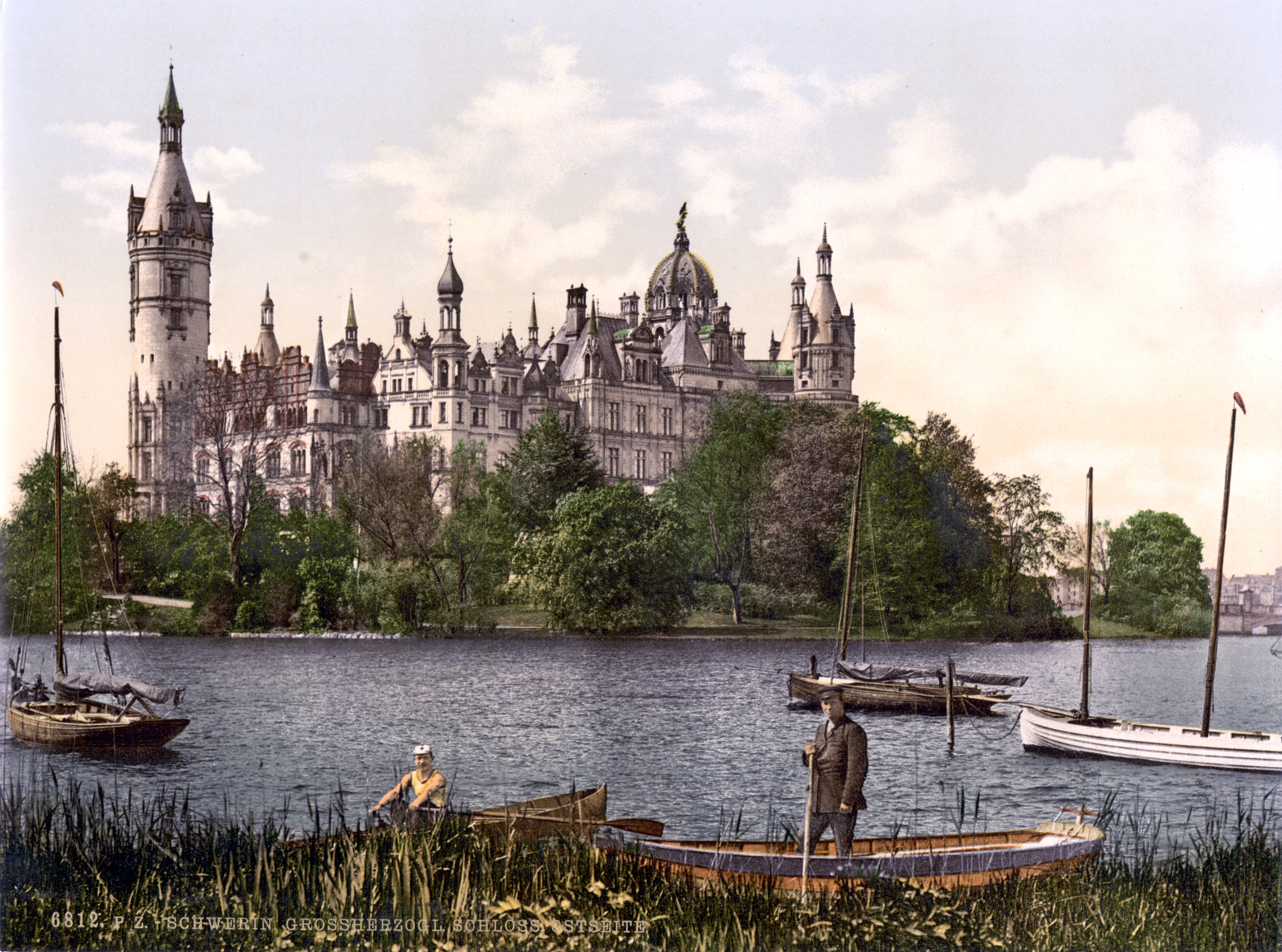 Schwerin Castle, eastern aspect